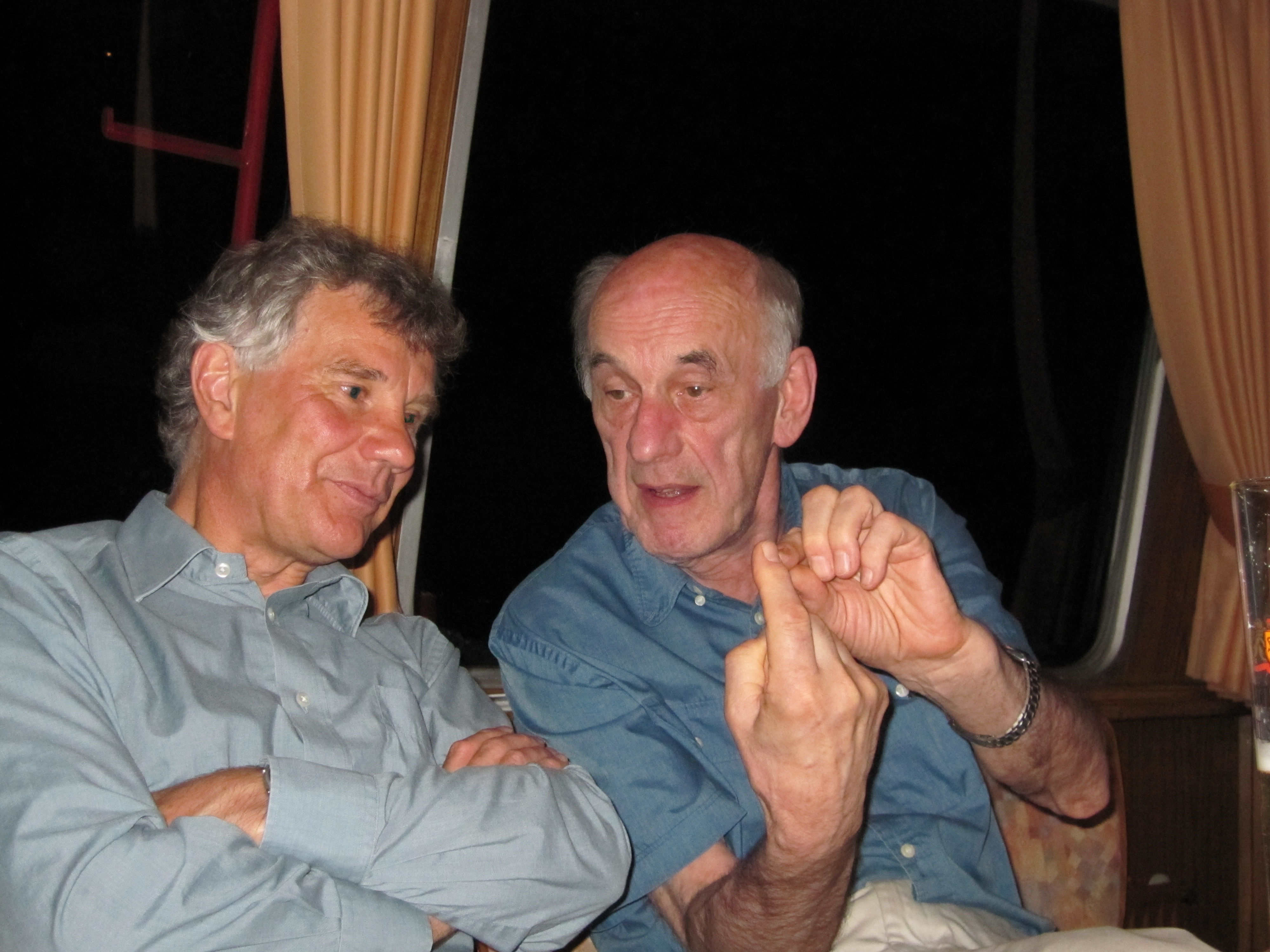 Ian Howard (right) discussing lively with his long-time coworker Brian Rogers (left). The photo is taken on the Riverboat tour at the European Conference on Visual Perception (ECVP) 2009 in Regensburg (Aug 28, 2009). The file will be used in Ian P. Howard